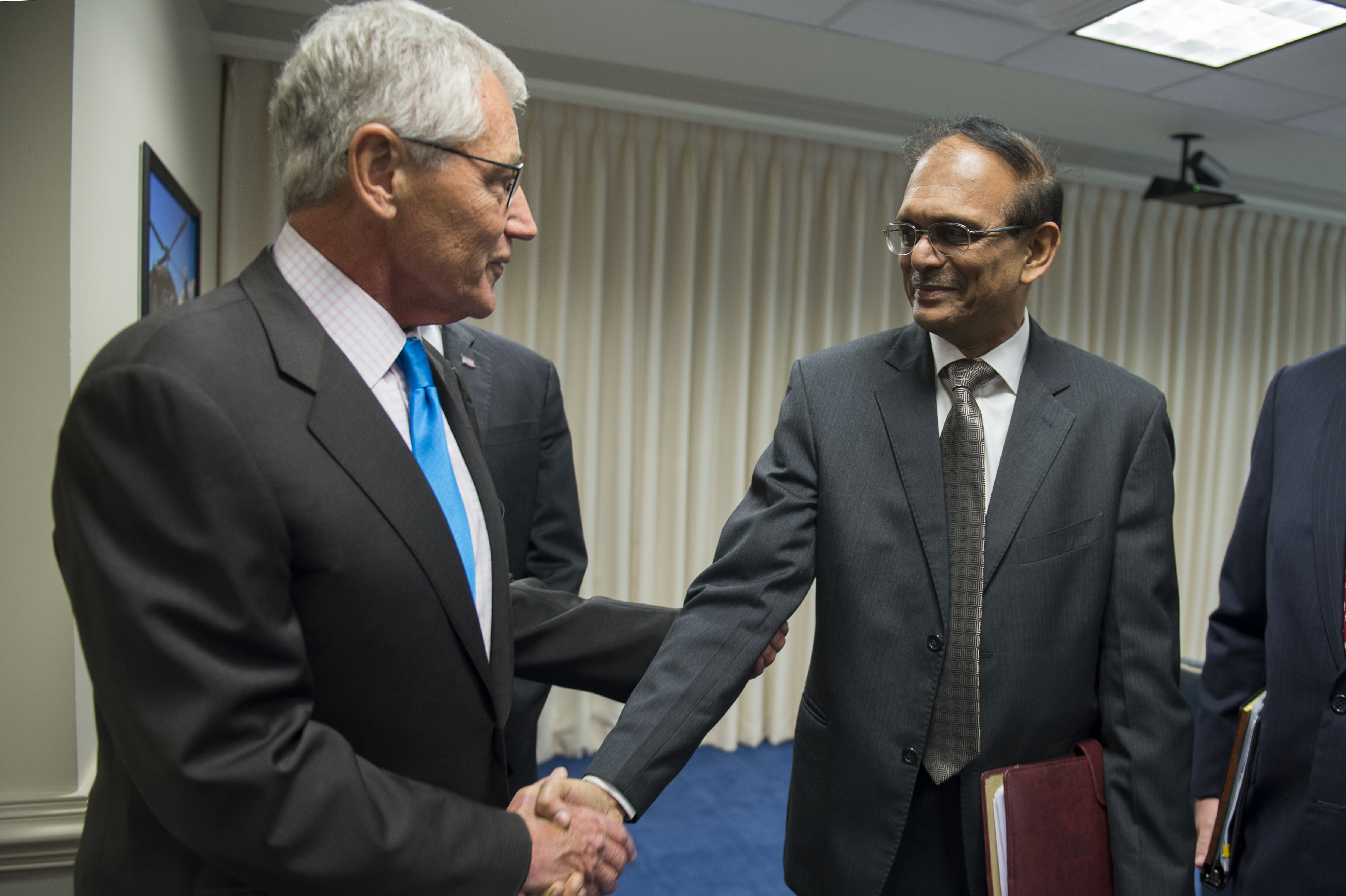 U.S. Defense Secretary Chuck Hagel greets Indian Secretary of Defense Production G. Mohan Kumar as he arrives at the Pentagon in Washington, D.C., for a meeting, Sept. 22, 2014.